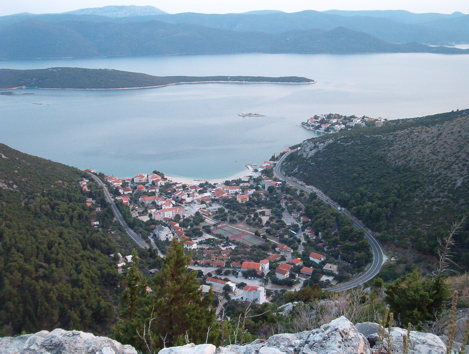 Klek - from the hill